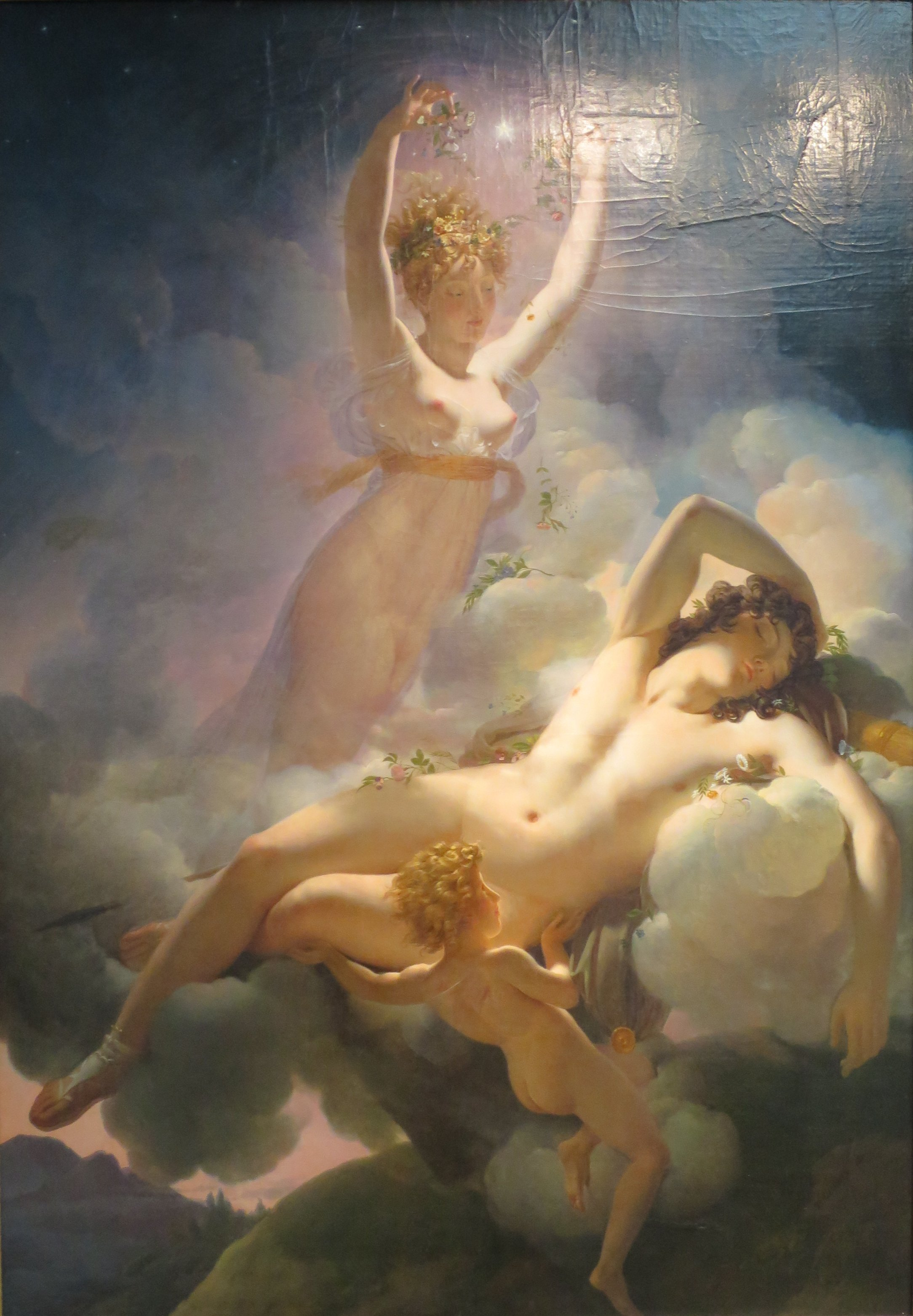 Aurora and Cephalus by Pierre-Narcisse Guérin, 1783, Pushkin Museum